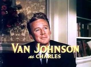 Cropped screenshot of Van Johnson from the trailer for the film The Last Time I Saw Paris (1954).